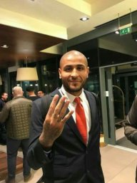 Leon Clarke, after scoring all 4 goals for Sheffield United in the 4-1 win against Hull City in 2017